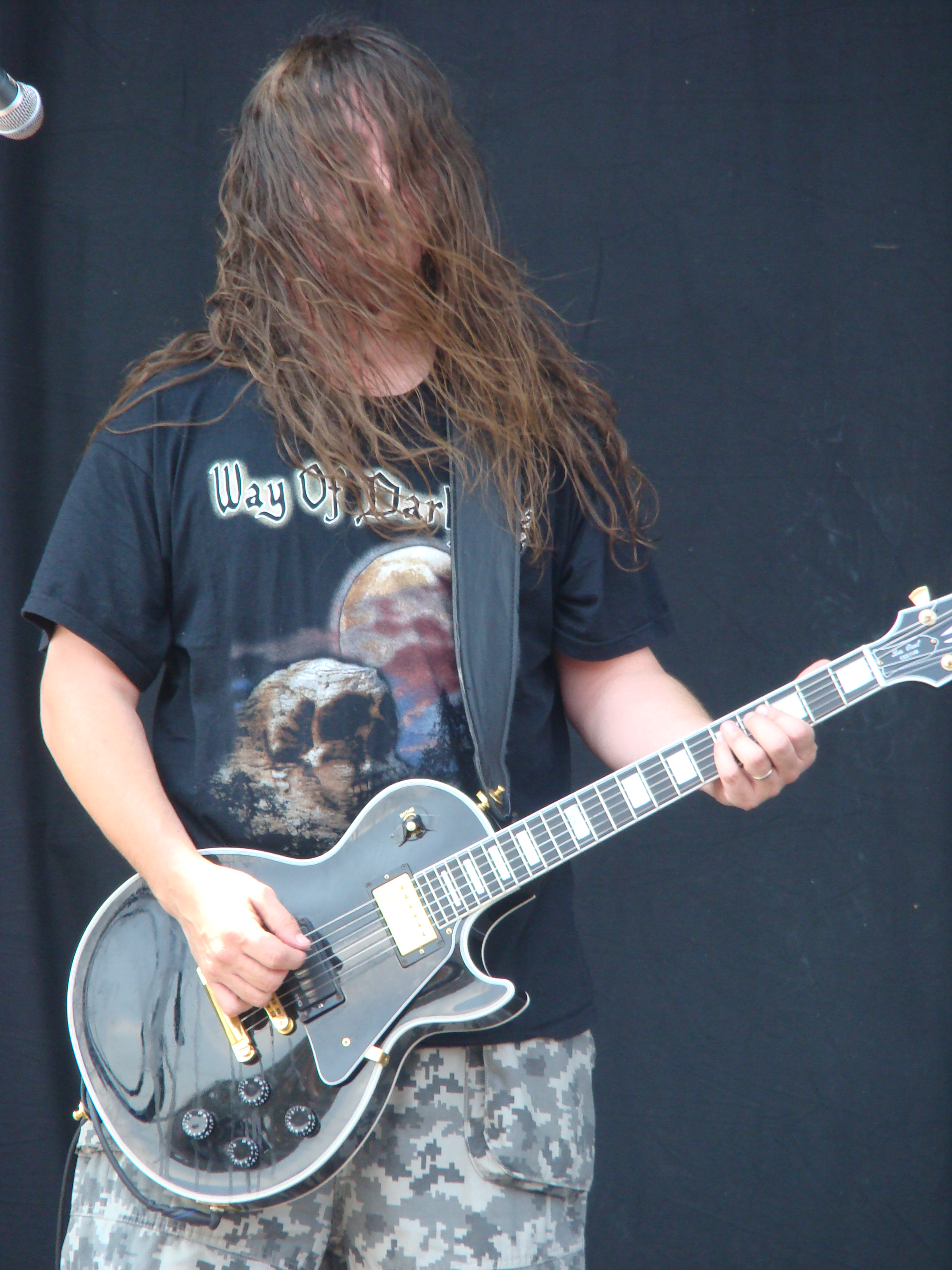 Mitch Harris, guitarrista de Napalm Death actuando en el Gods of Metal 2009.